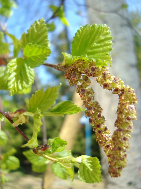 Betula pendula inflorescence in Finland